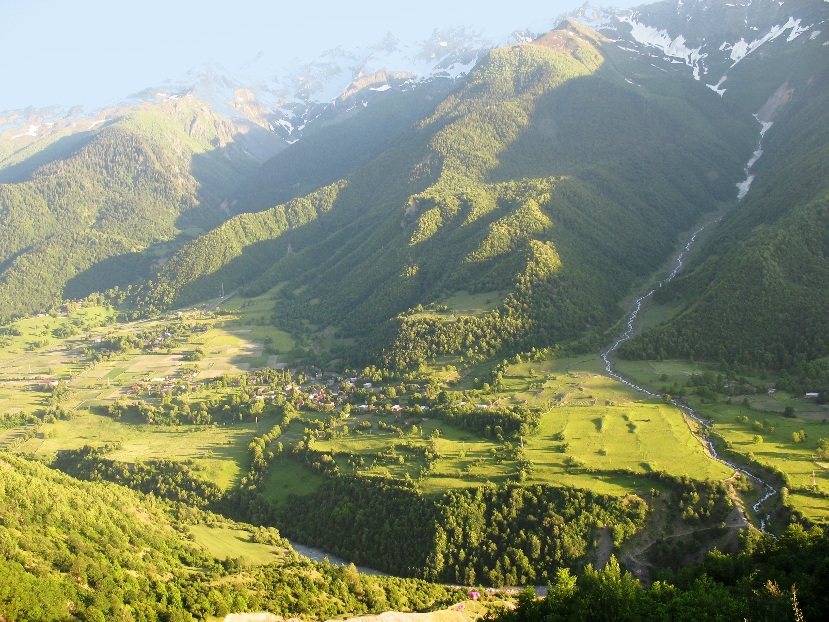 Svipi, Tviberi and Lezgara from Kalashi